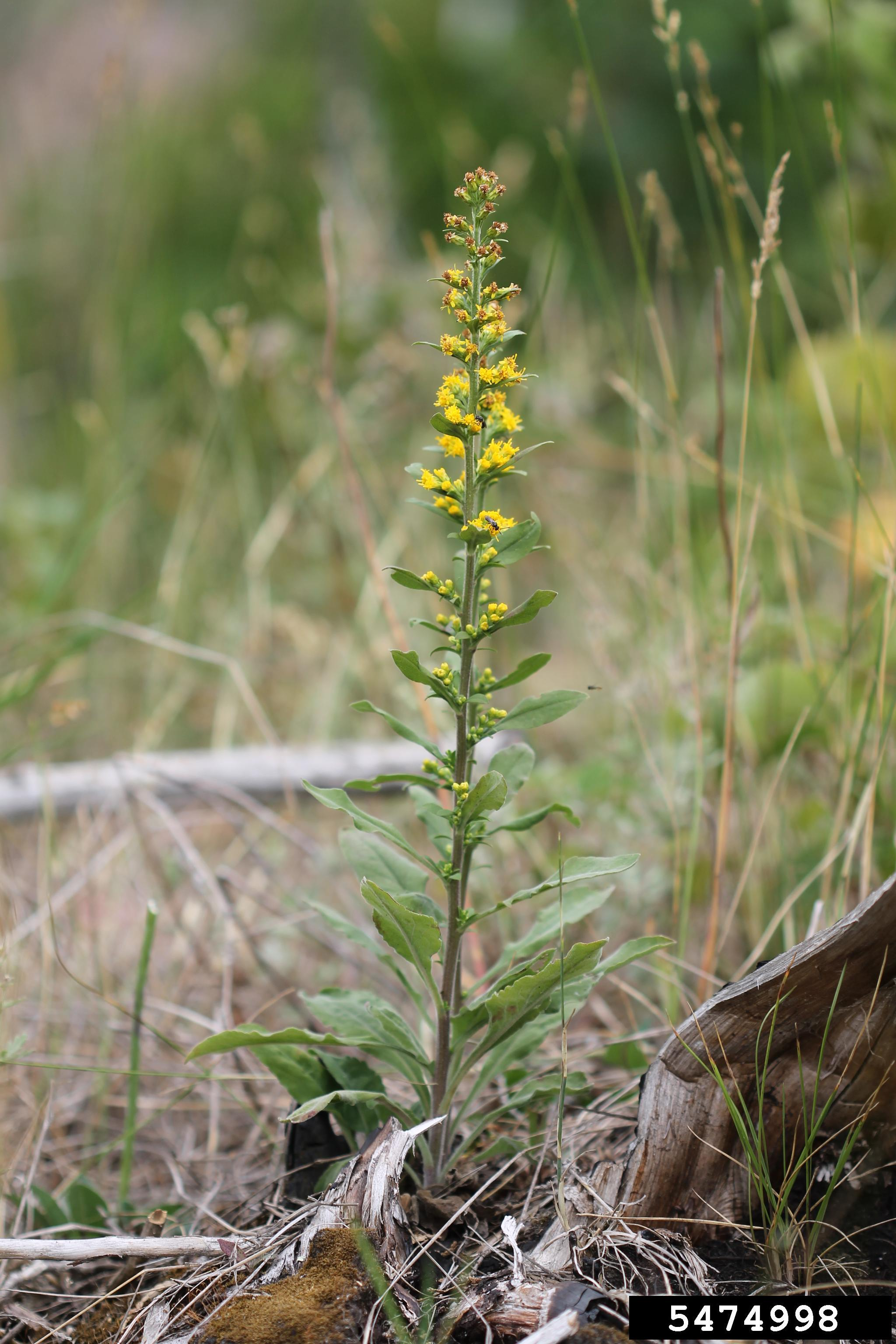 Solidago hispida, Gros Cap, Prince Township, Sault Ste.Marie, Ontario, Canada